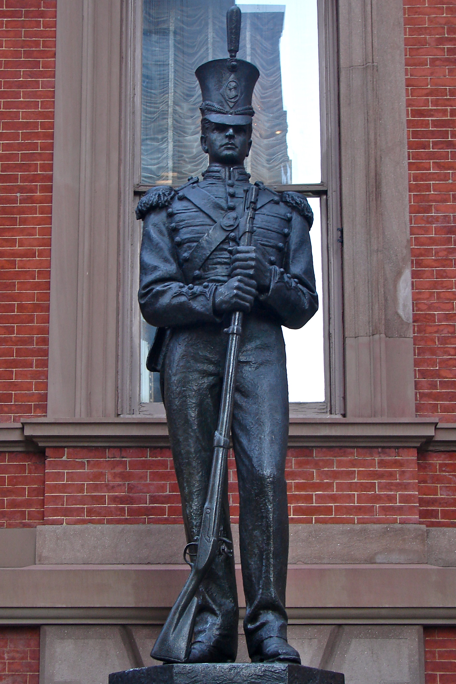 Statue in front of the Union League Club in Center City, Philadelphia, PA.